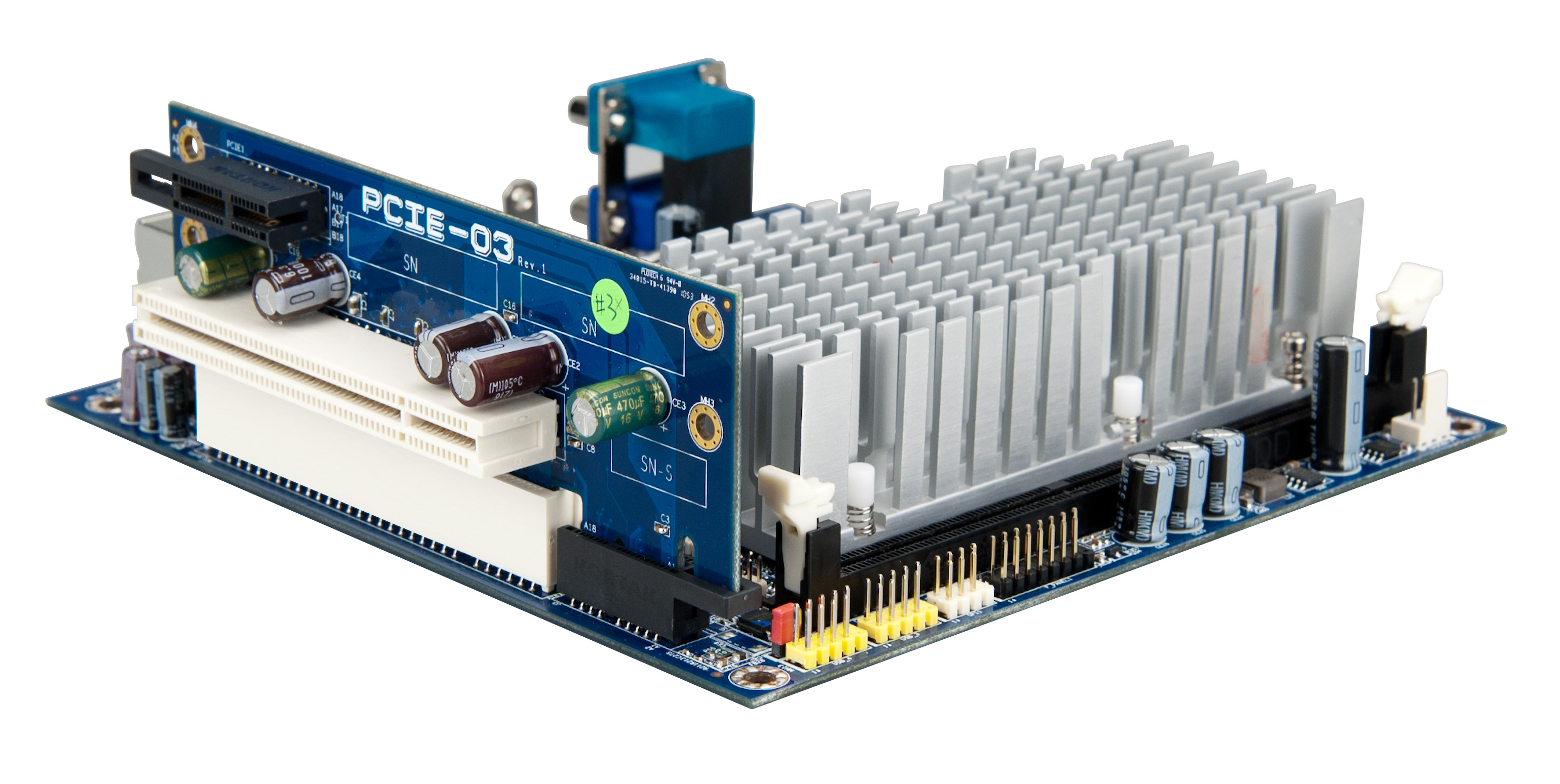 Here is an image of the VIA EPIA-M860 Mini-ITX board, a flexible paltform for demanding digital signage, media terminals, infotainment devices and online streaming video applications. Shown here at an angle with a heat sink.